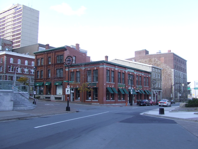 The corner of Upper Water Street and Duke Street in Halifax, Nova Scotia showing the heritage buildings facing demolition for a controversial new development called the Waterside Centre.